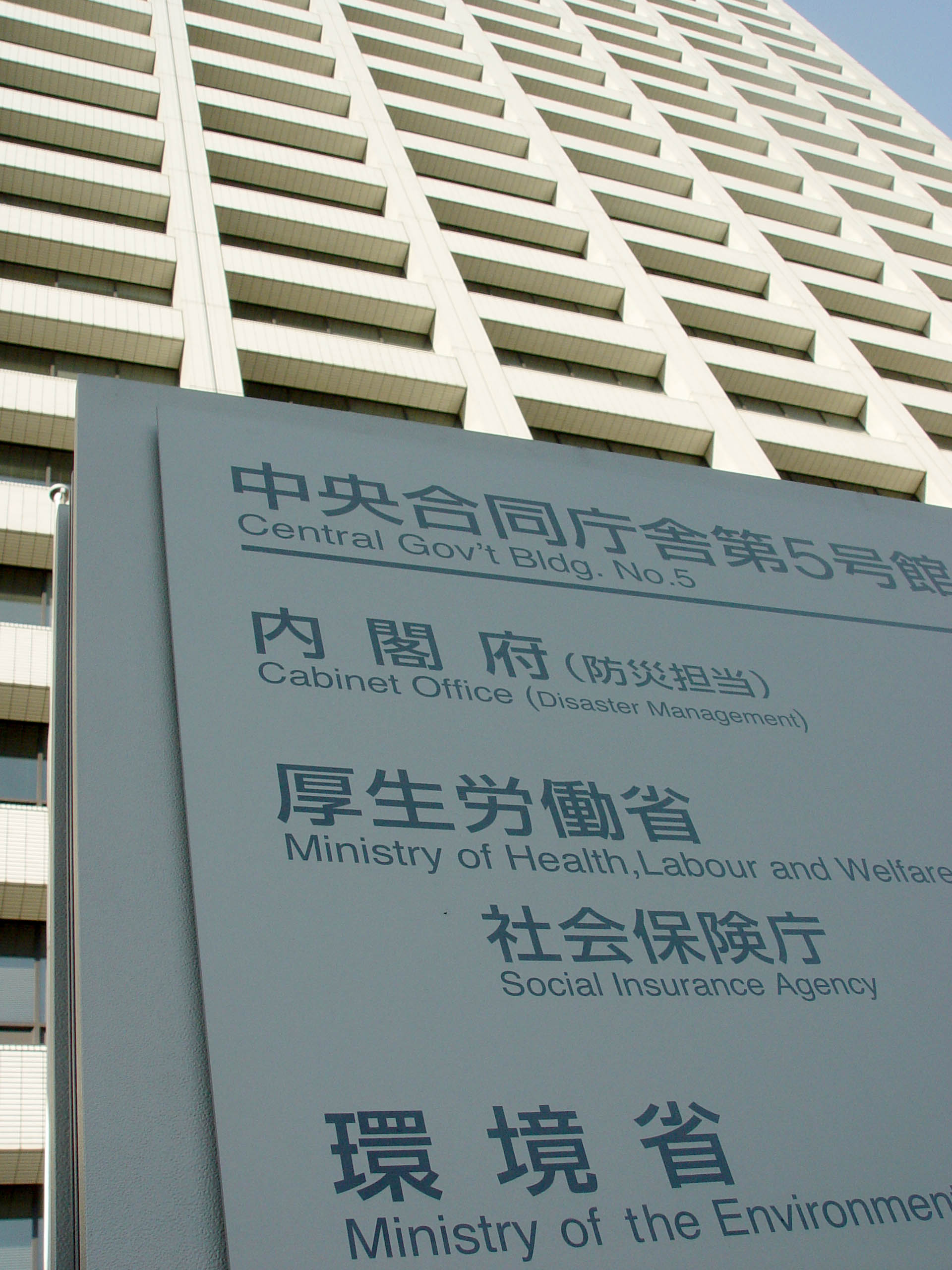 Public office building of Japan: The Ministry of Health, Labour and Welfare The Social Insurance Agency The Ministry of the Environment The Cabinet Office disaster prevention charge 庁舎： 厚生労働省 社会保険庁 環境省 内閣府防災担当